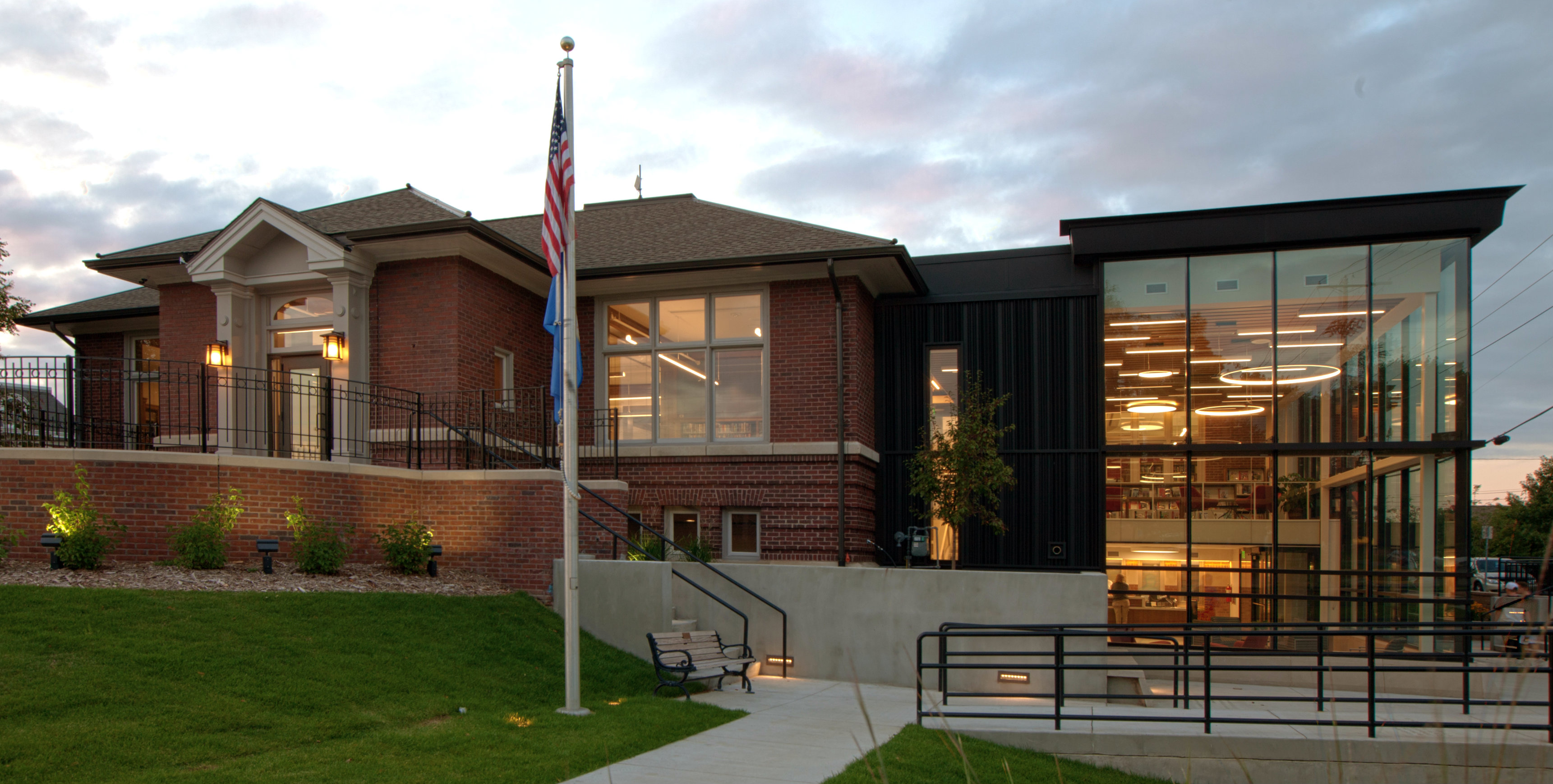 The newly renovated Northfield Public Library.